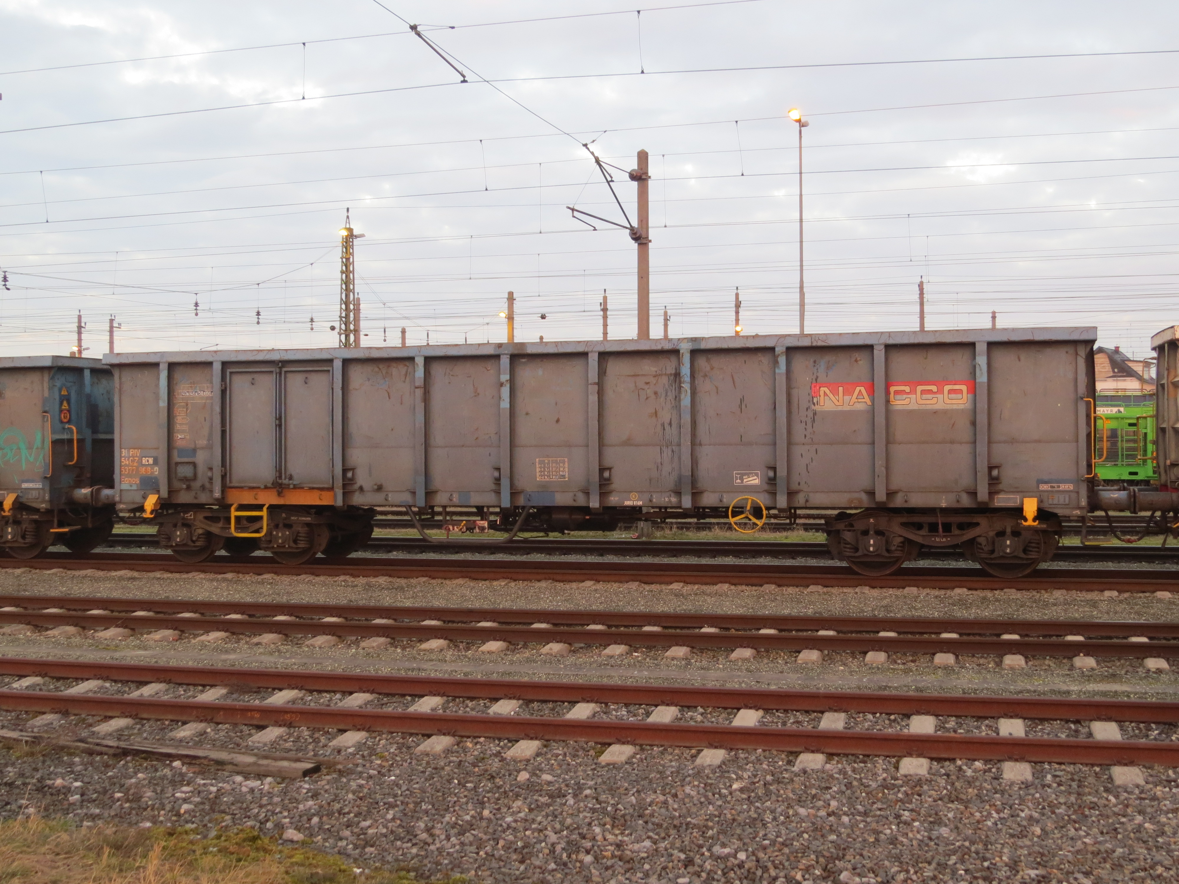 31 54 5377 968-9 at Bahnhof St. Valentin